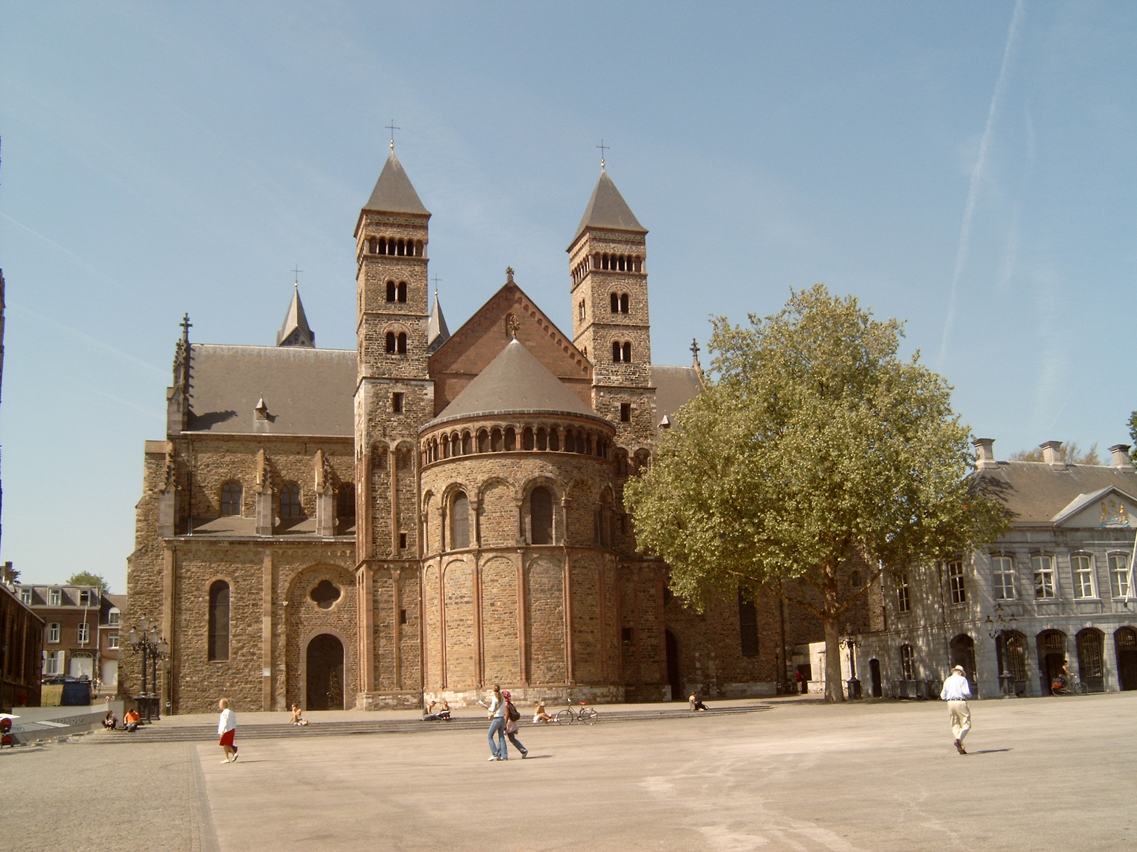 Maastricht, church near Vrijthof